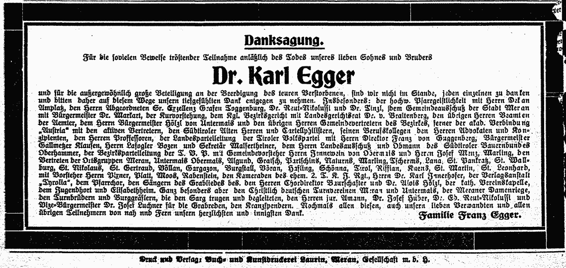 Statement of gratitude for assisting a burial from 1922, Meran-Merano (South Tyrol)